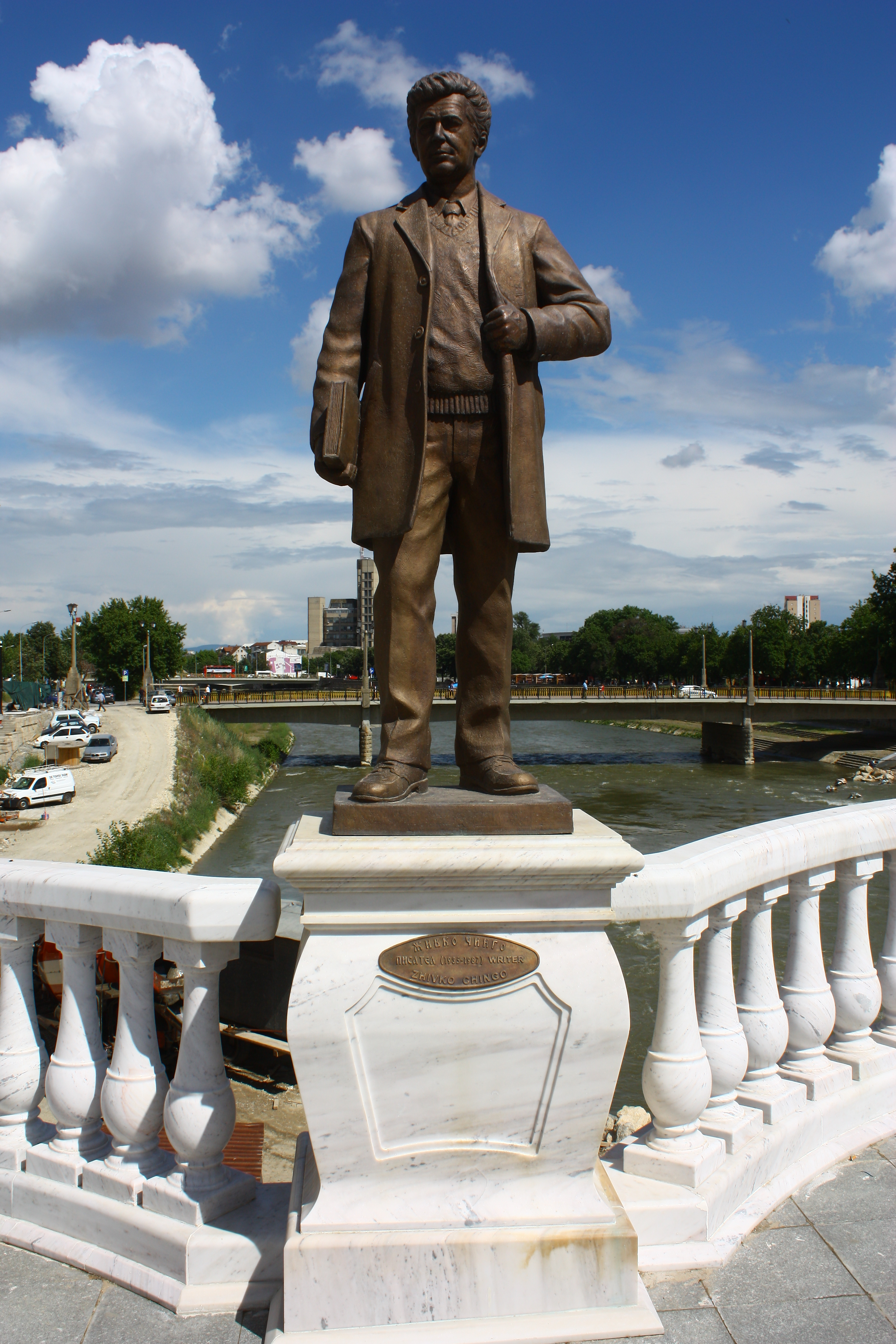 Sculpture od the Bridge of Arts in Skopje, Macedonia This image is uploaded as part of the picture contest Wiki Loves Cultural Heritage in Macedonia 2013. English | македонски | +/−